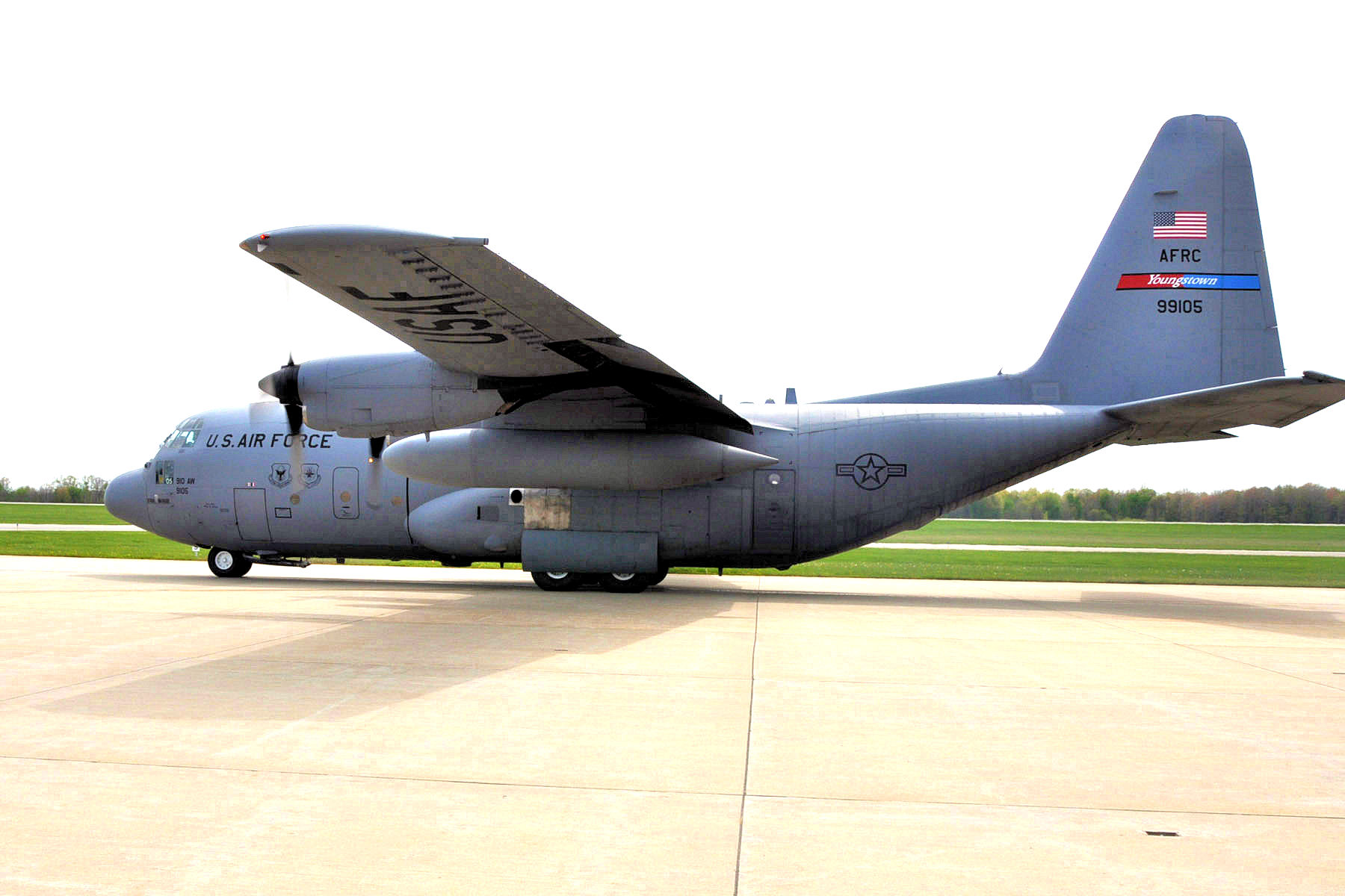 Lockheed C-130H Hercules 89-9105 910th Airlift Wing Youngstown-Warren Air Reserve Station, Ohio.